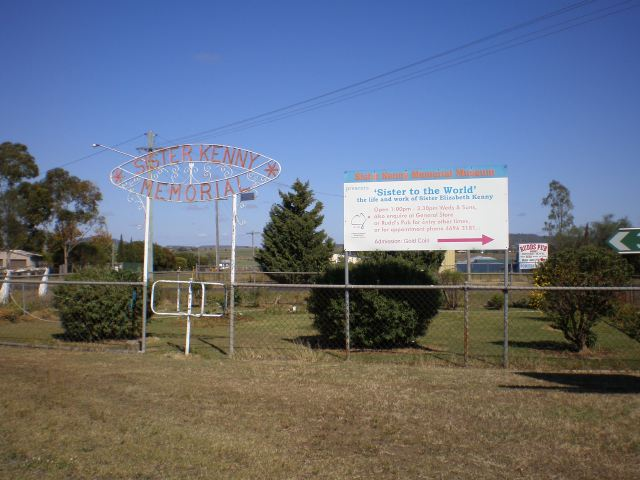 Sister Kenny Memorial. Sister Kenny Memorial, Nobby, Queensland.